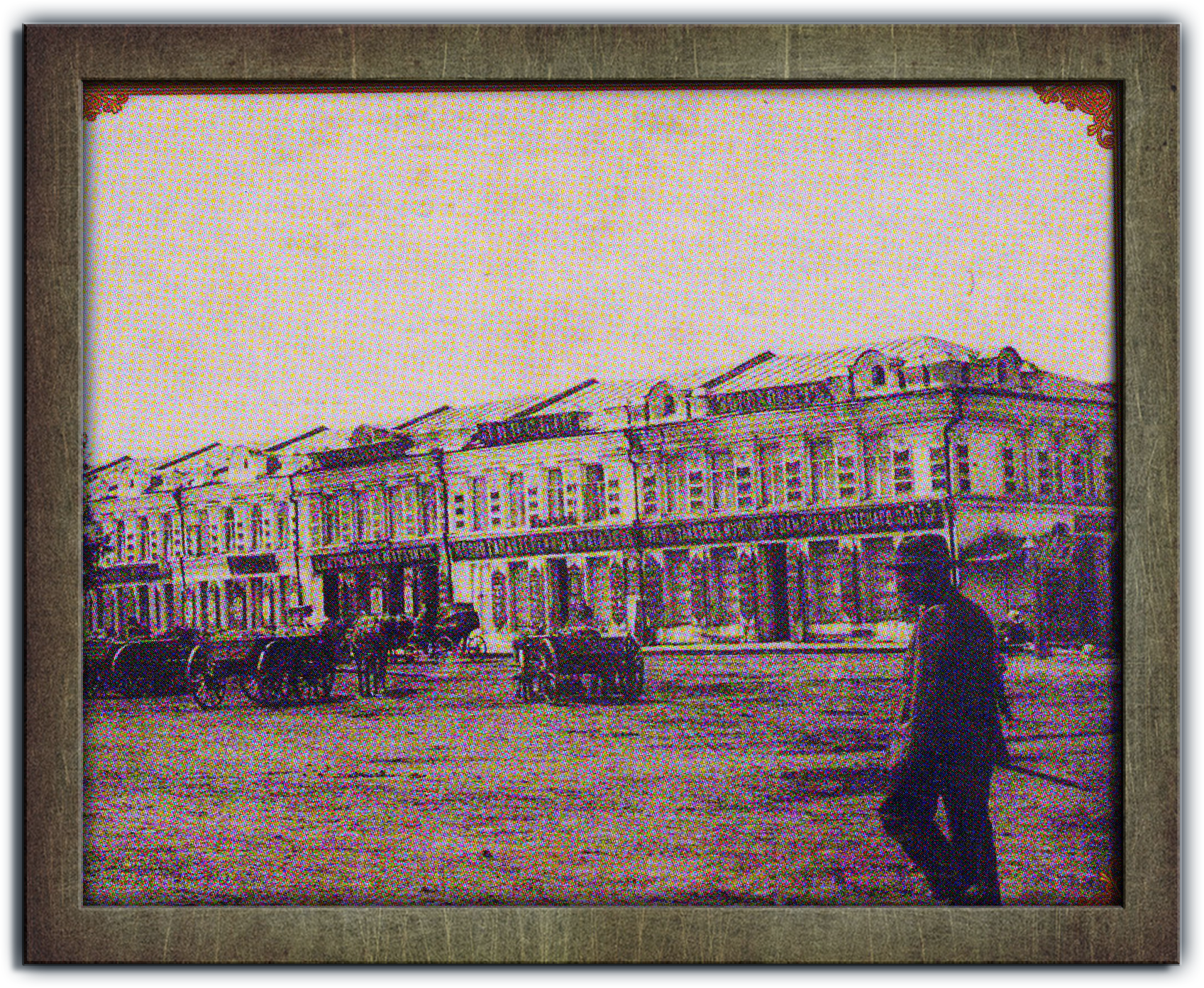 Shopping row